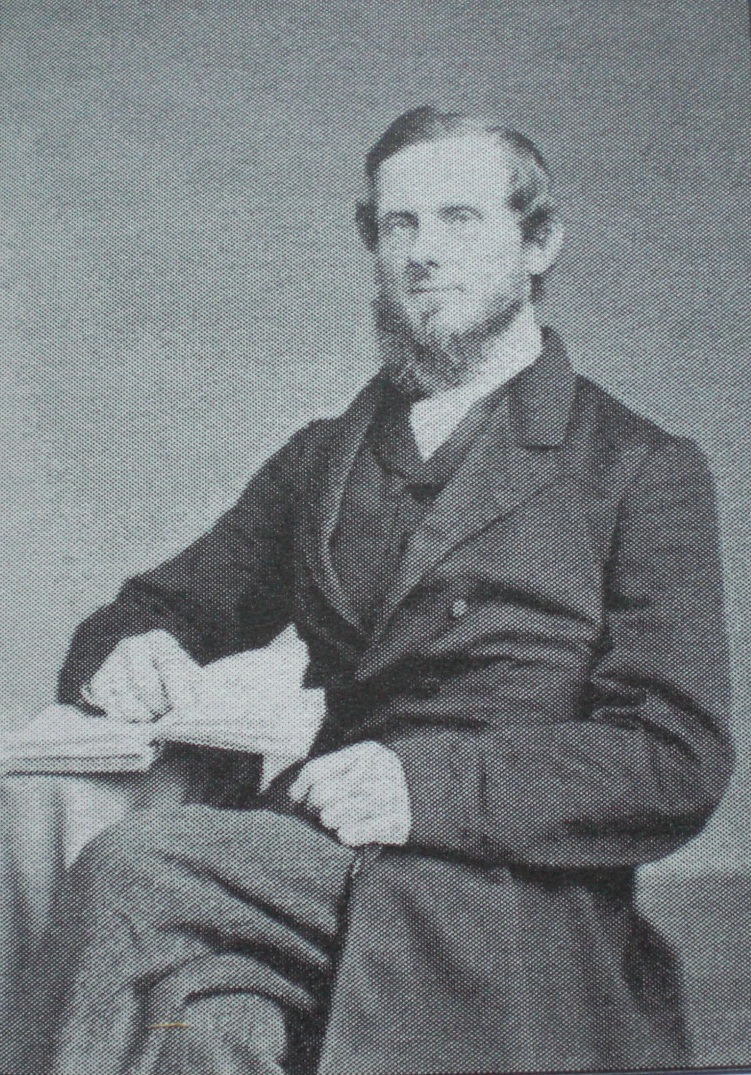 David Jewett Waller, Sr. in 1833/4.